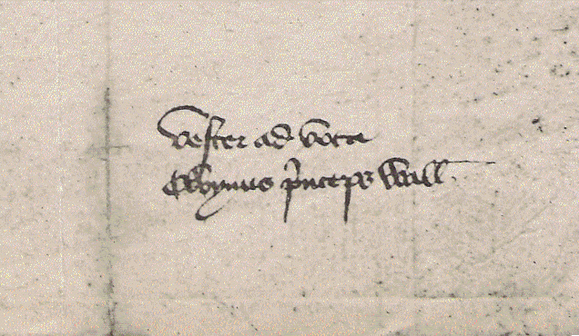 "Signature" of Owain Glyndŵr, Prince of Wales. Bottom of a diplomatic letter sent from Pennal, Gwynedd to Charles VI of France in March 1406. The Latin text reads: Vester ad vota / Owynus princeps Wall[ie]. Meaning, "Yours avowedly, / Owain, Prince of Wales". Original is kept in the Archives nationales, Paris.